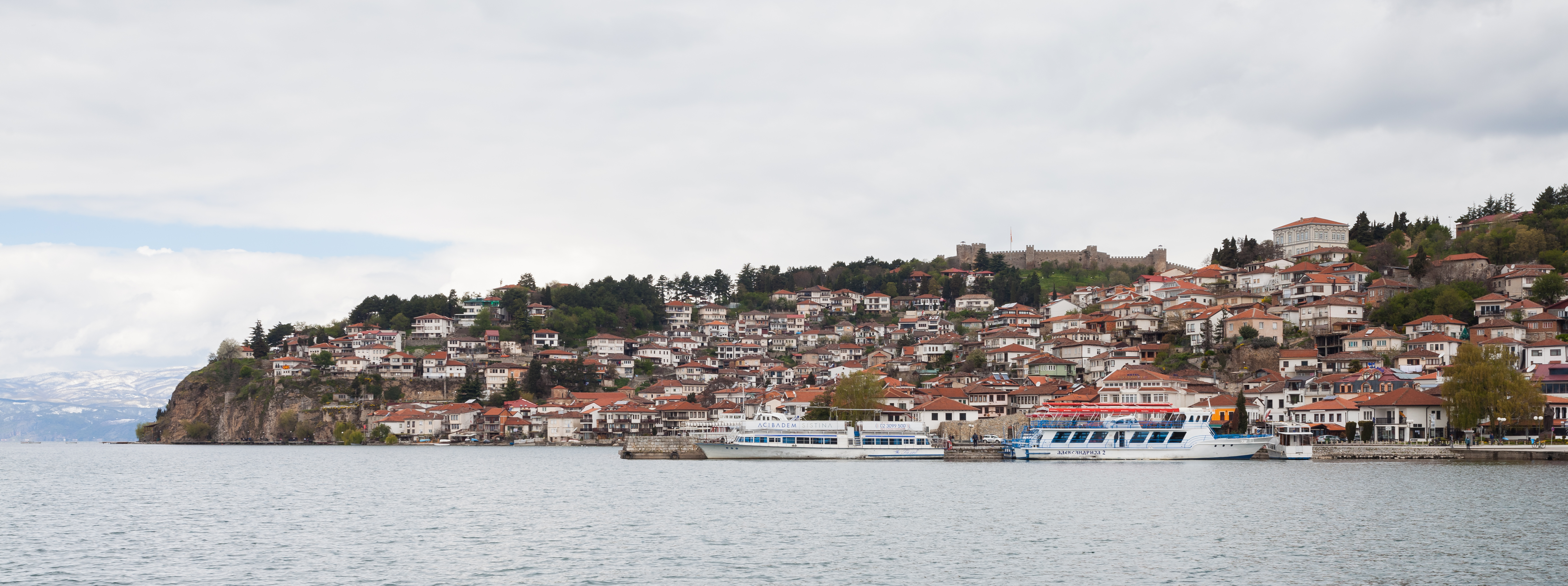 View of Ohrid, Macedonia